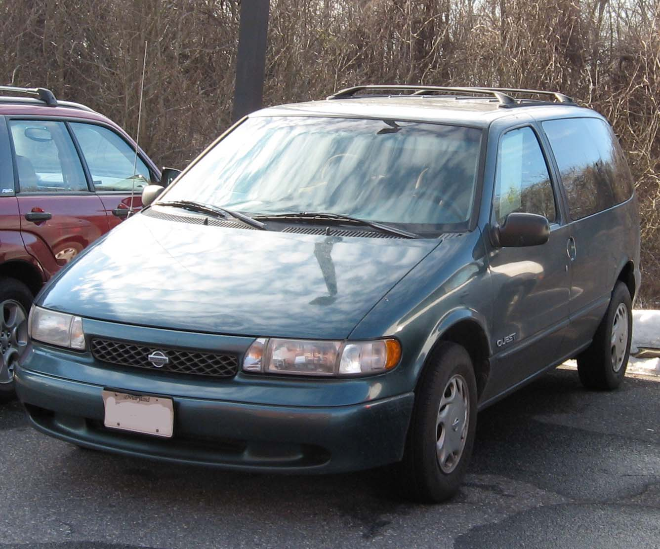 1996-1998 Nissan Quest photographed in USA.